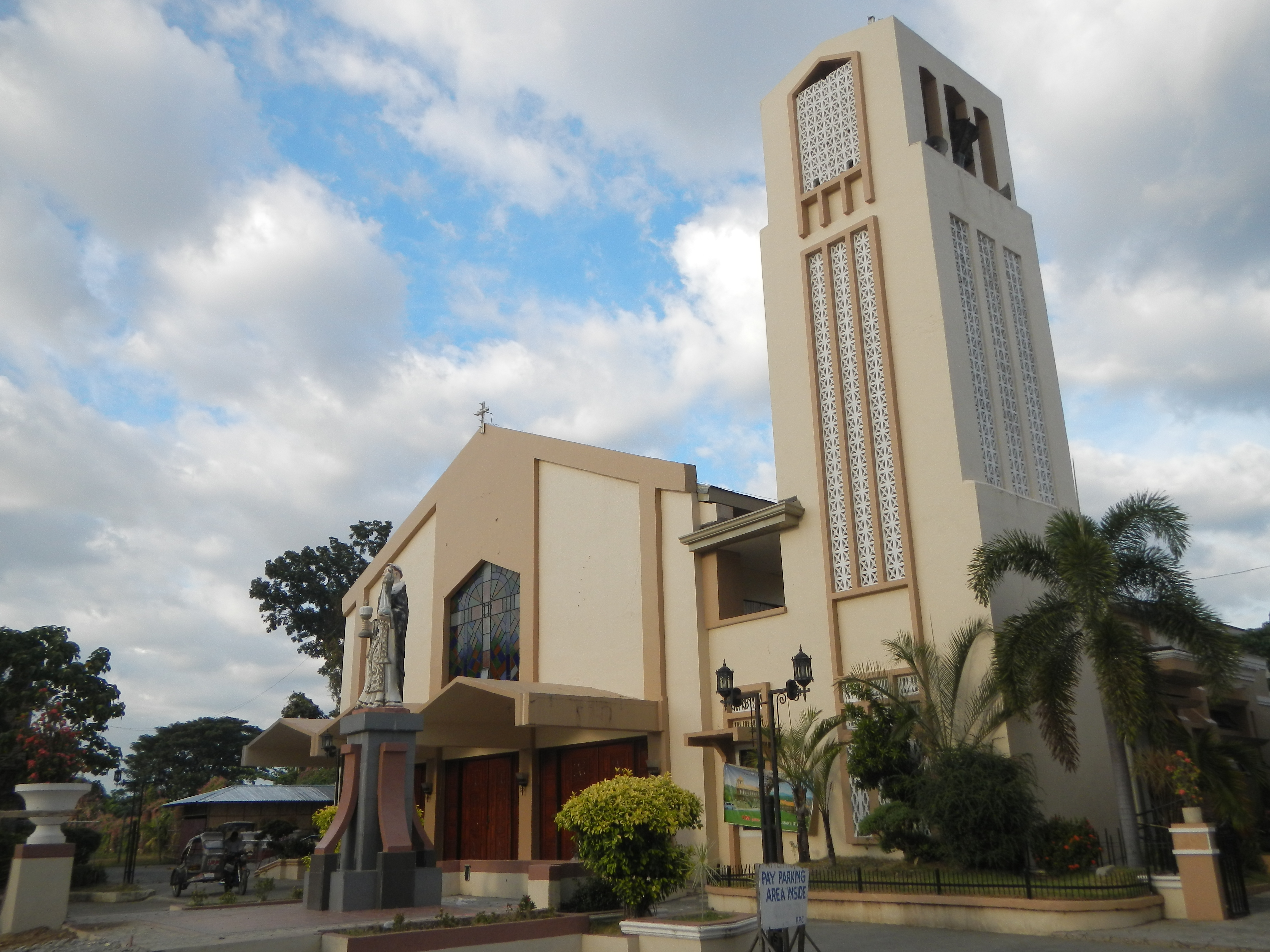 Parish of St. Hyacinth (F-1590), San Jacinto, 2431 Pangasinan, Tel. 5290-722, Population: 25,722; Catholics: 23,628, Titular: St. Hyacinth, Aug. 17 Parish Priest: Rev. Jose Laforteza [1]